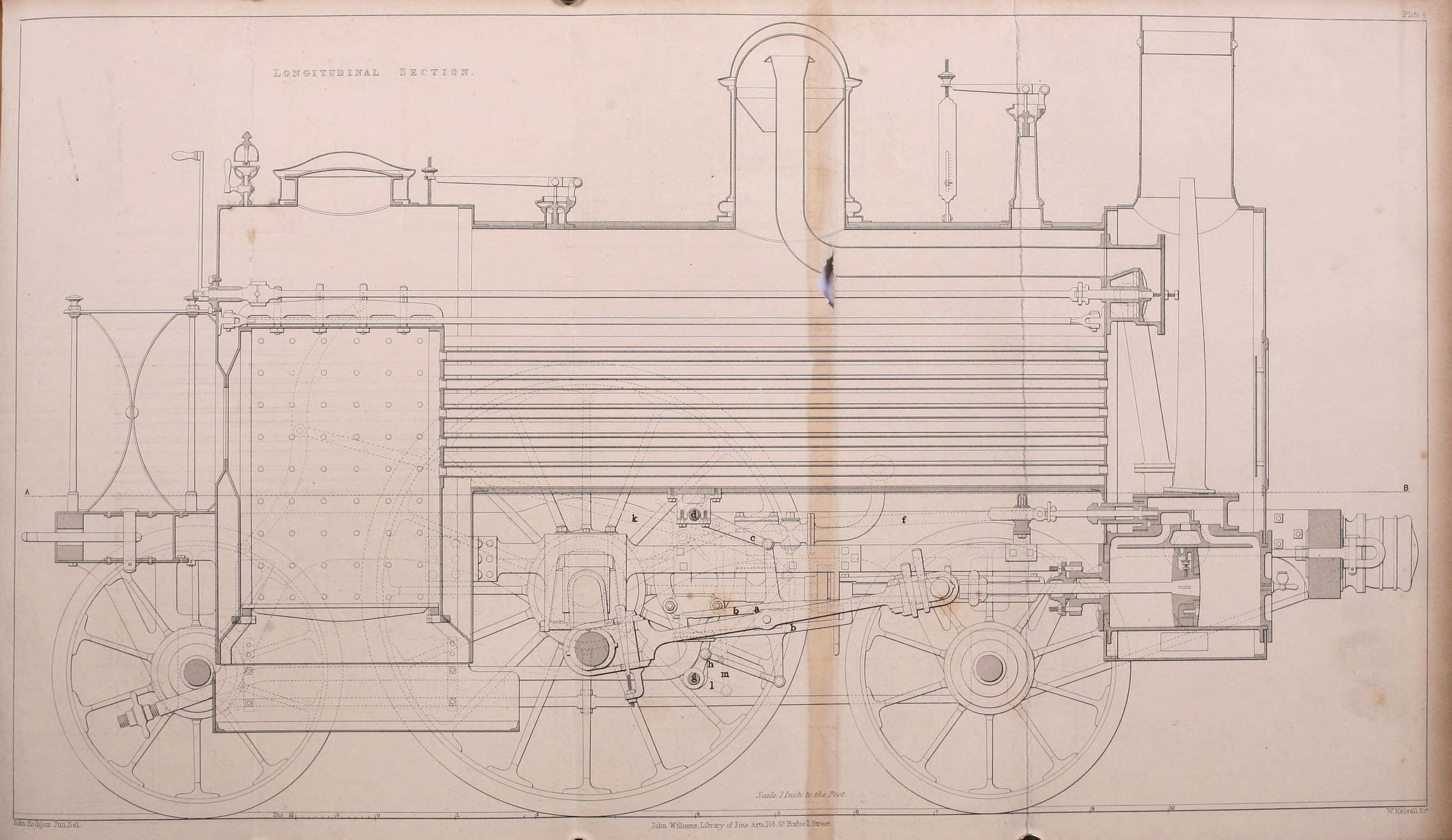 Cutaway right elevation of a 2-2-2 steam locomotive built by R. and W. Hawthorn in 1838 for the Paris and Versailles Railway, left bank. Line A-B is the line of the corresponding cutaway plan view. Parts of Hawthorn's new valve gear are labeled.